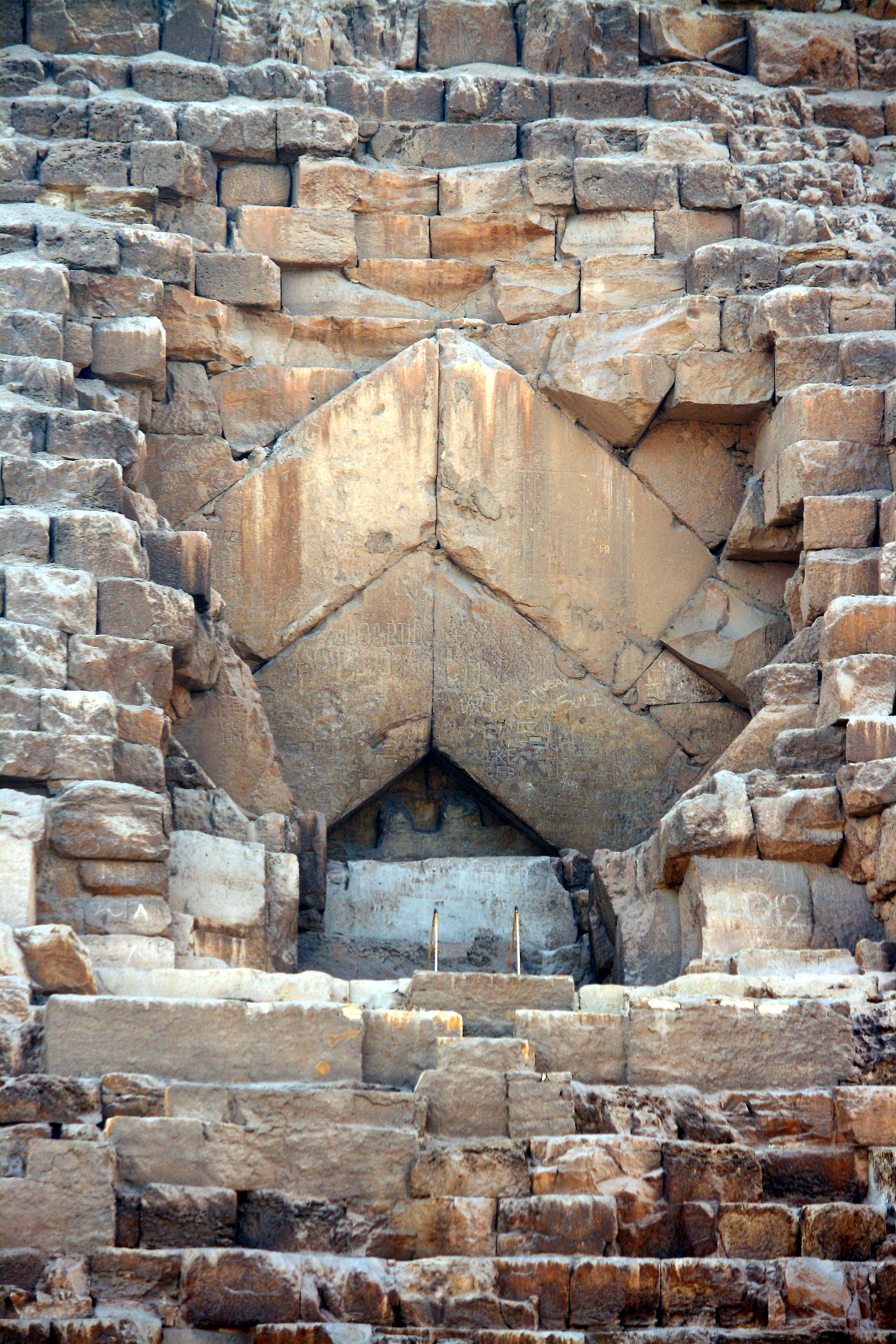 Cheops-Pyramide